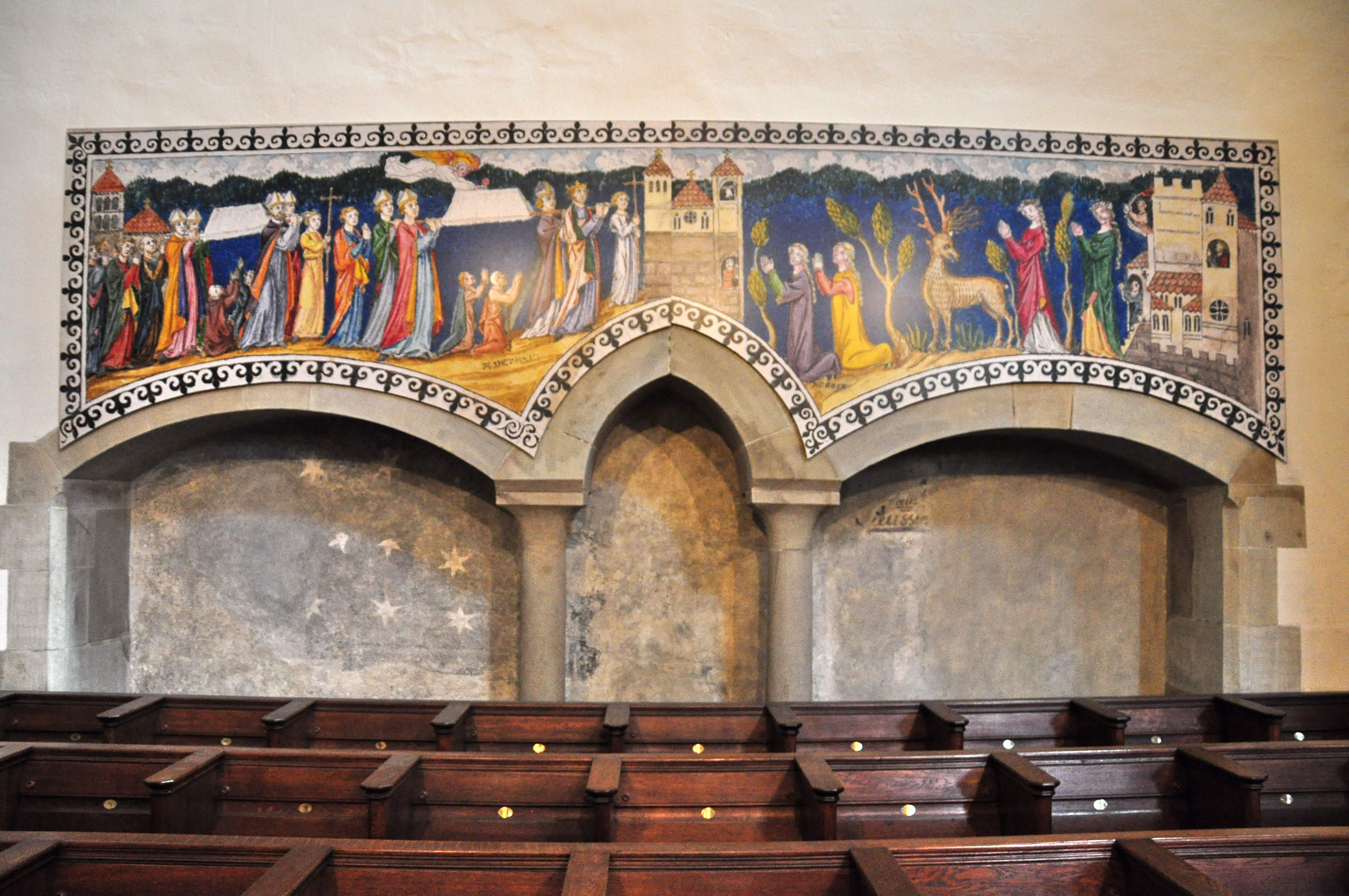 Fraumünster in Zürich (Switzerland). Wall painting, showing on the left the transfer of the relics from Felix and Regula, and on the right the foundation legend of Fraumünster.